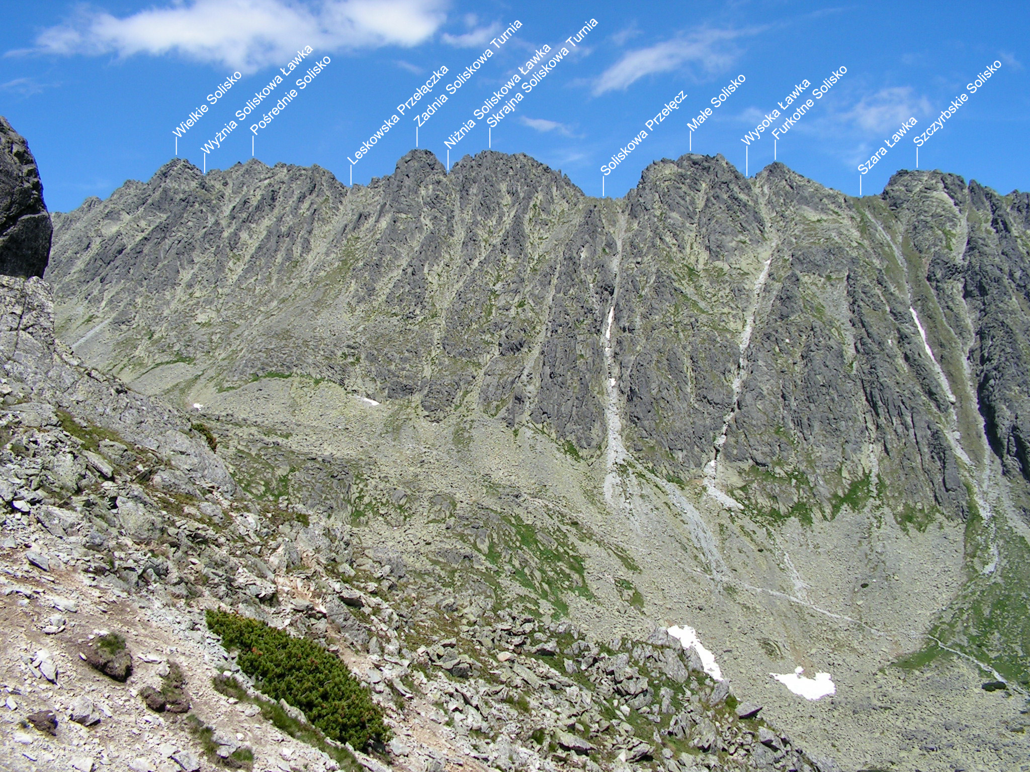 Hrebeň Soliska (a part of it: from Veľké Solisko to Štrbské Solisko), view from Sedielkový priechod. Polish names of peaks and saddles.